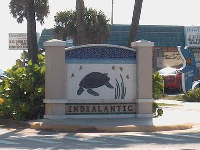 source: taken myself